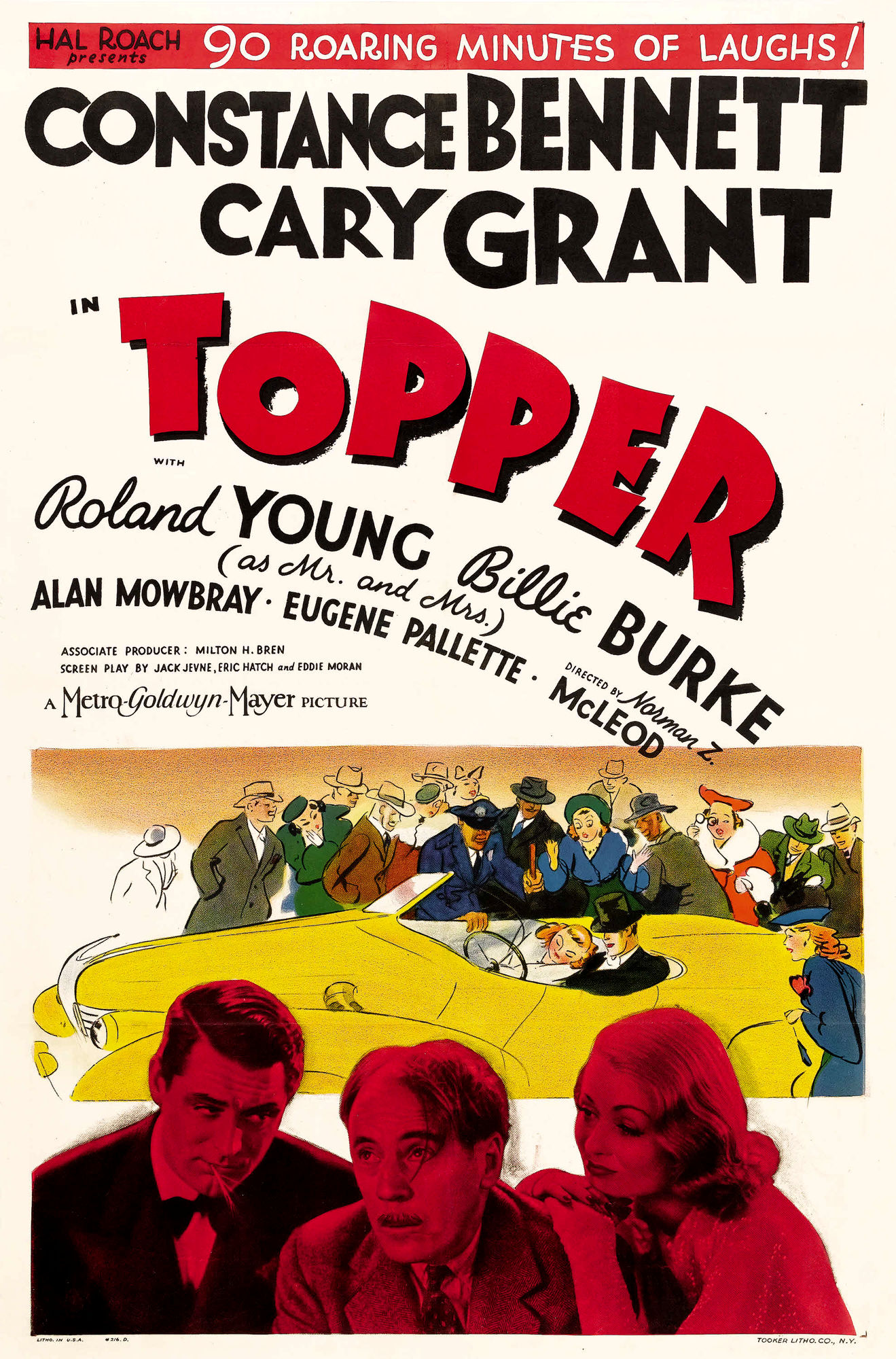 Poster for the 1927 film Topper.